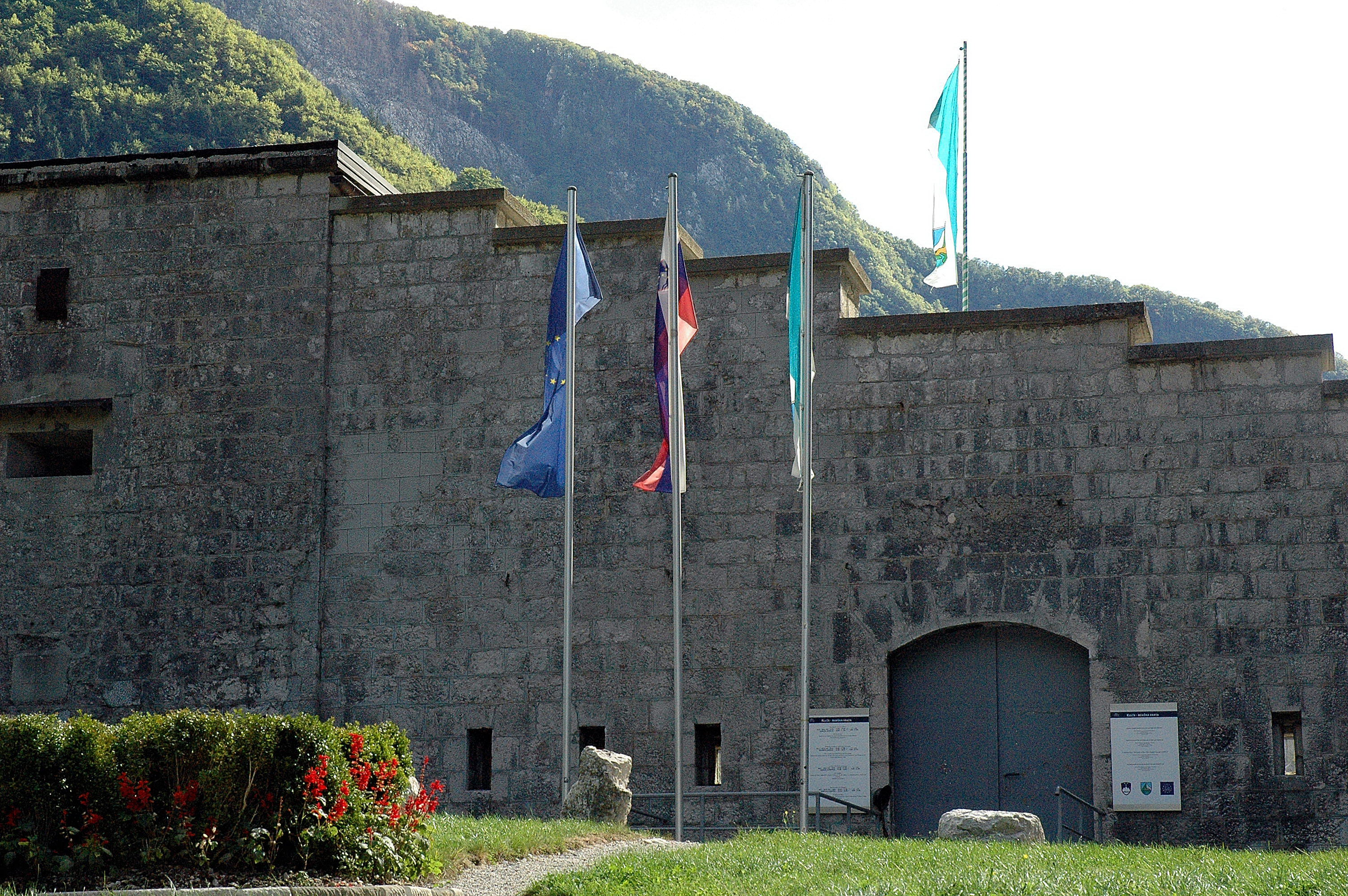 Fort Kluže, bastion of the First Worldwar, Bovec, Slovenia, EU